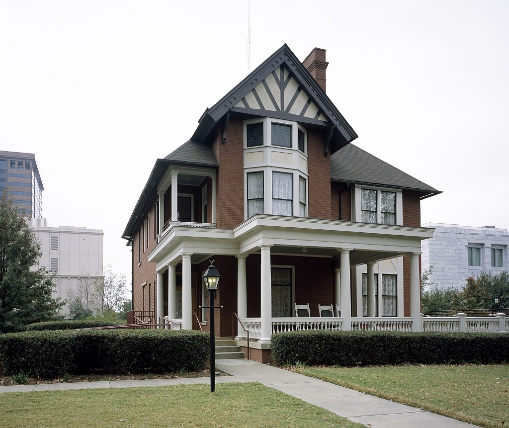 Building where Margaret Mitchell wrote her Pulitzer Prize-winning novel "Gone With the Wind" in Atlanta, Georgia.